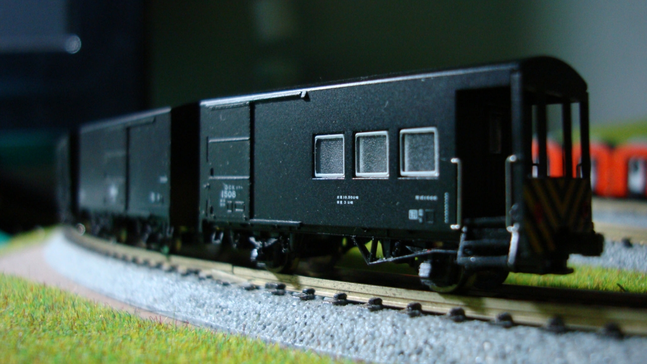 3CK1500 N-SIZE MODEL OF Touch-Rail Models CO., Ltd.